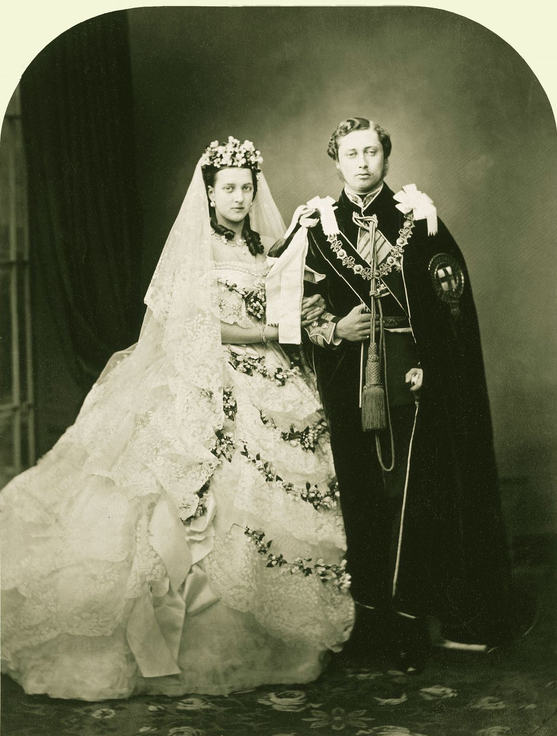 The wedding of Albert Edward, Prince of Wales (later King Edward VII), and Alexandra of Denmark, London, 1863